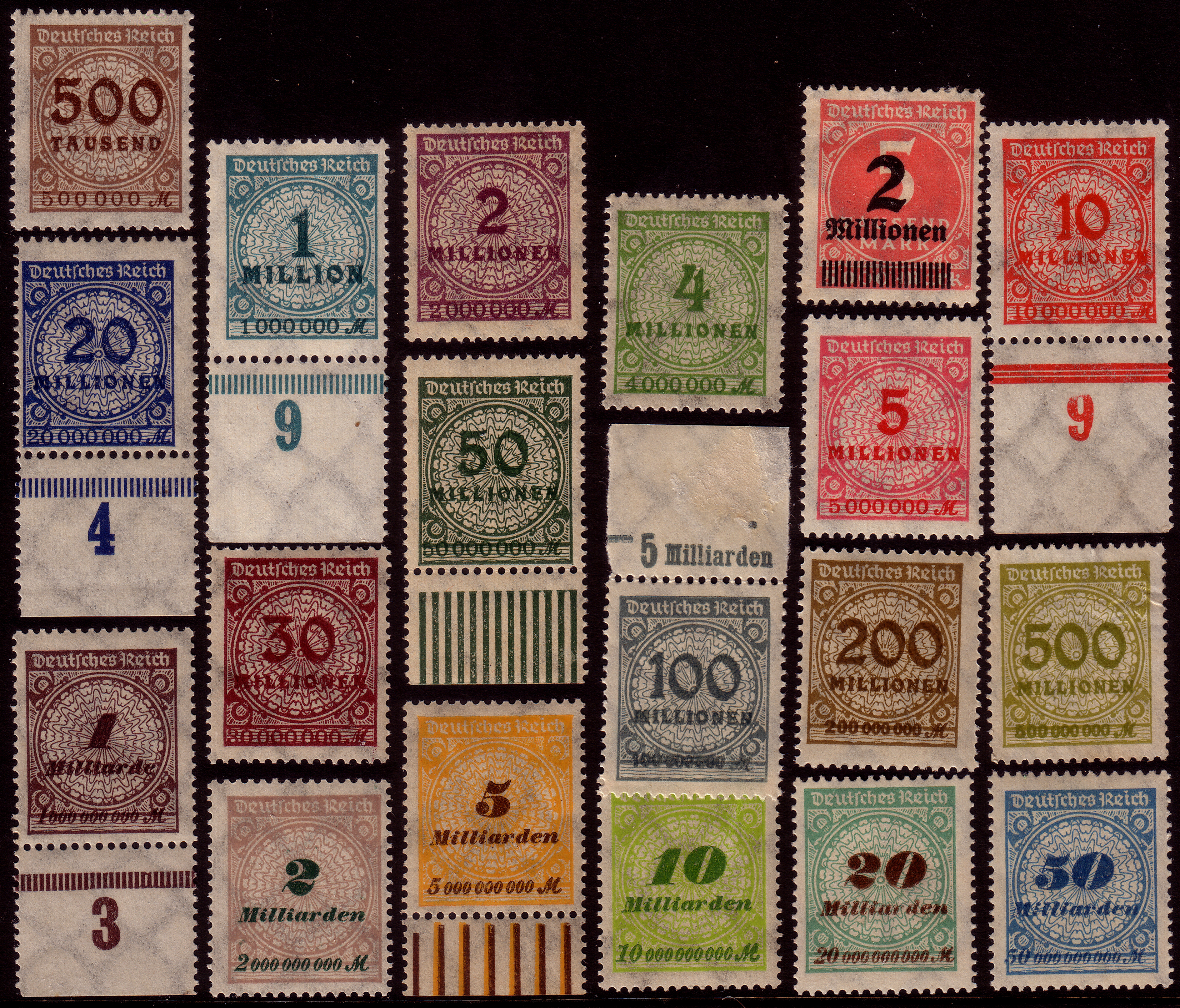 Postage stamps of Weimar Germany, hyperinflation of early 1920s